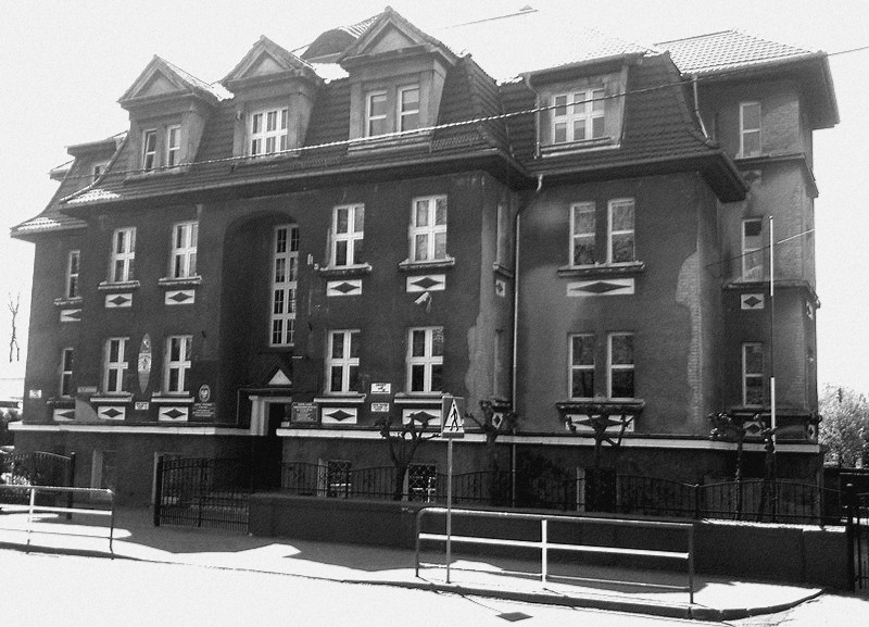 The team of Schools Over secondary-school in Gryfice (Poland)